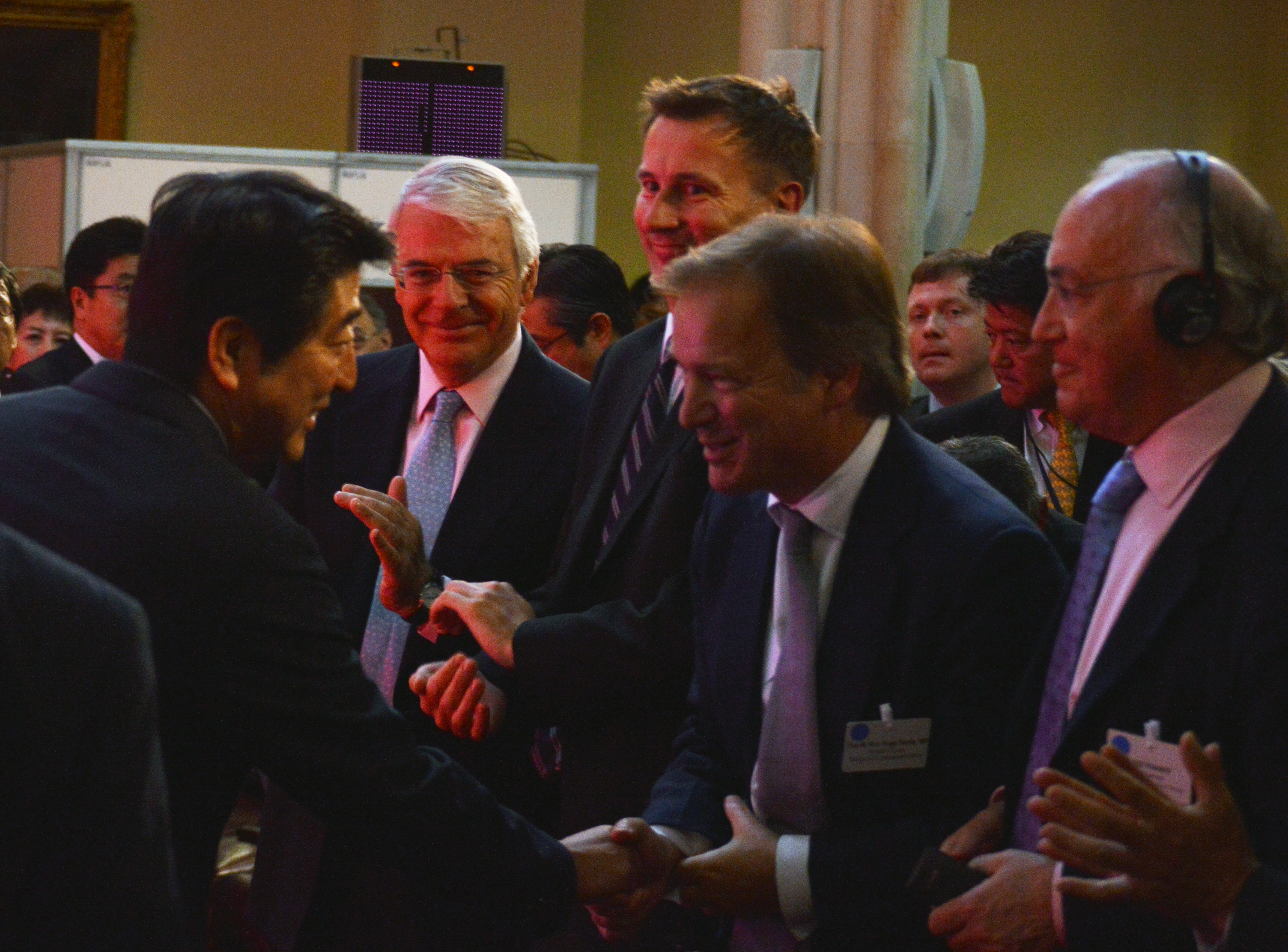 Japan's Economic Revival (at Guildhall, London) 20 June 2013 cht.hm/12cWn73